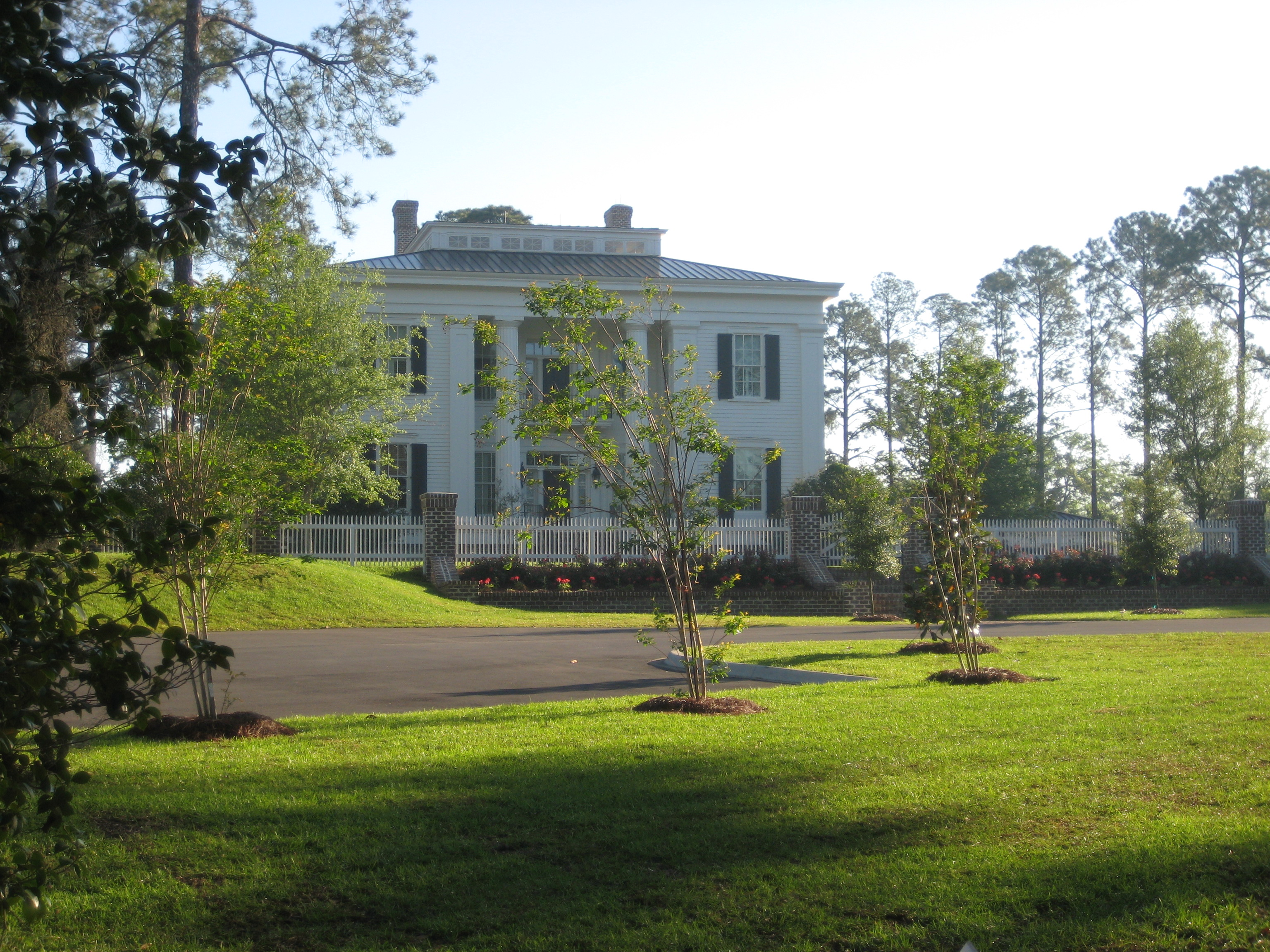 University-owned residence of the FSU President. Florida State University, USA